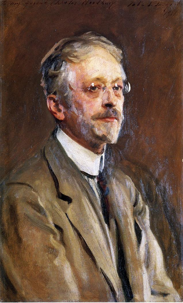 Charles Woodbury